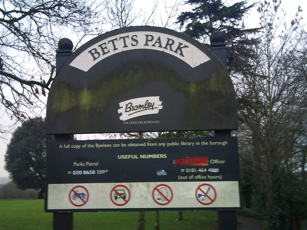 Betts Park, Penge - its sign.